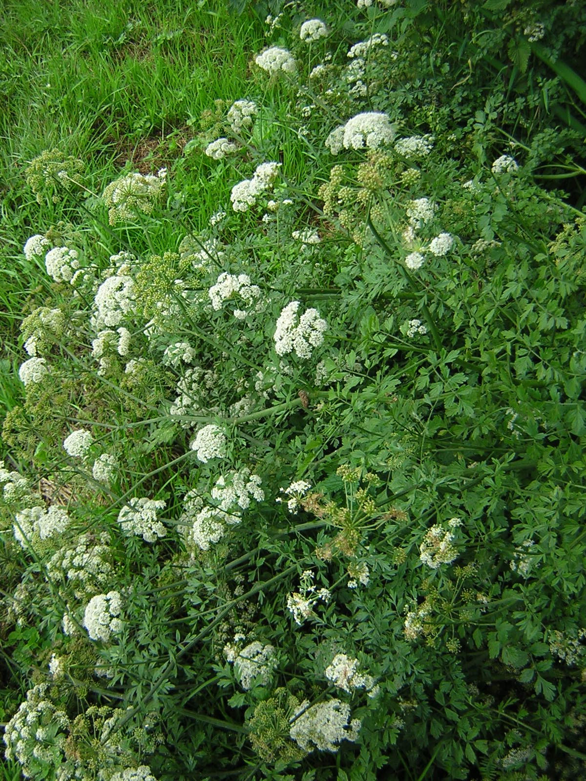 Oenanthe crocata Source : [1]